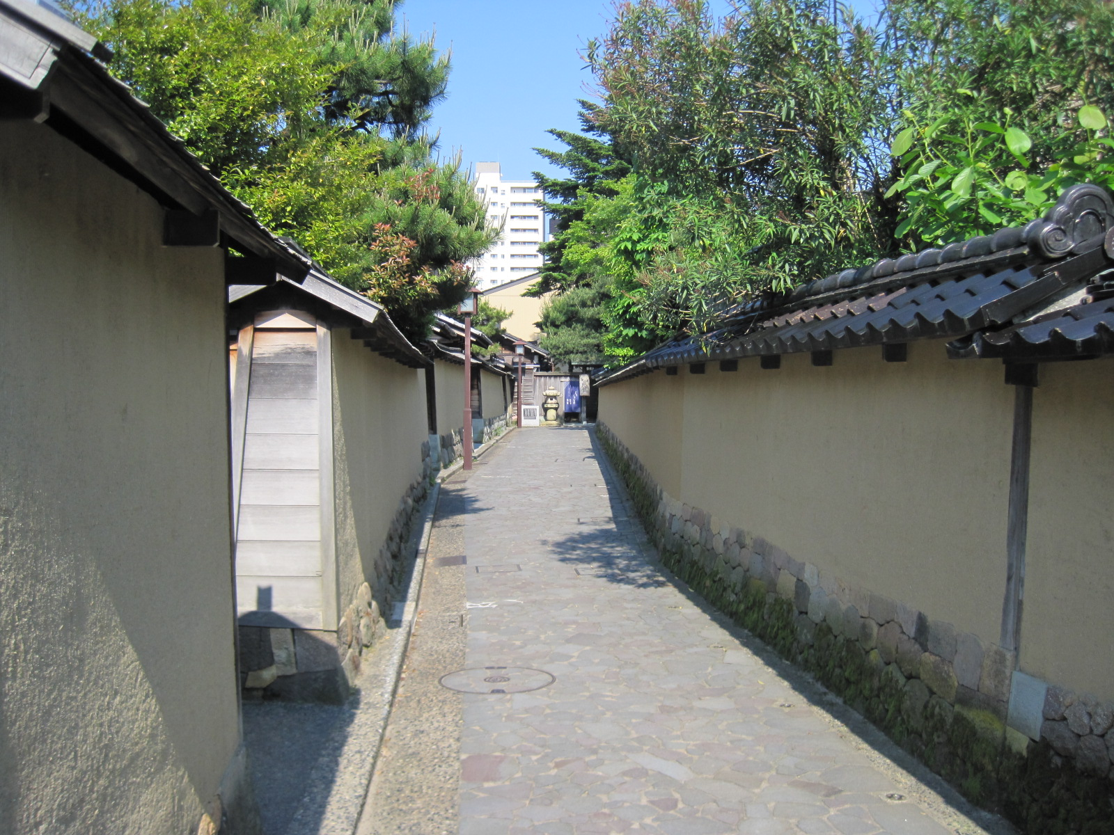 Nagamachi Samurai District (Kanazawa city, Ishikawa prefecture)